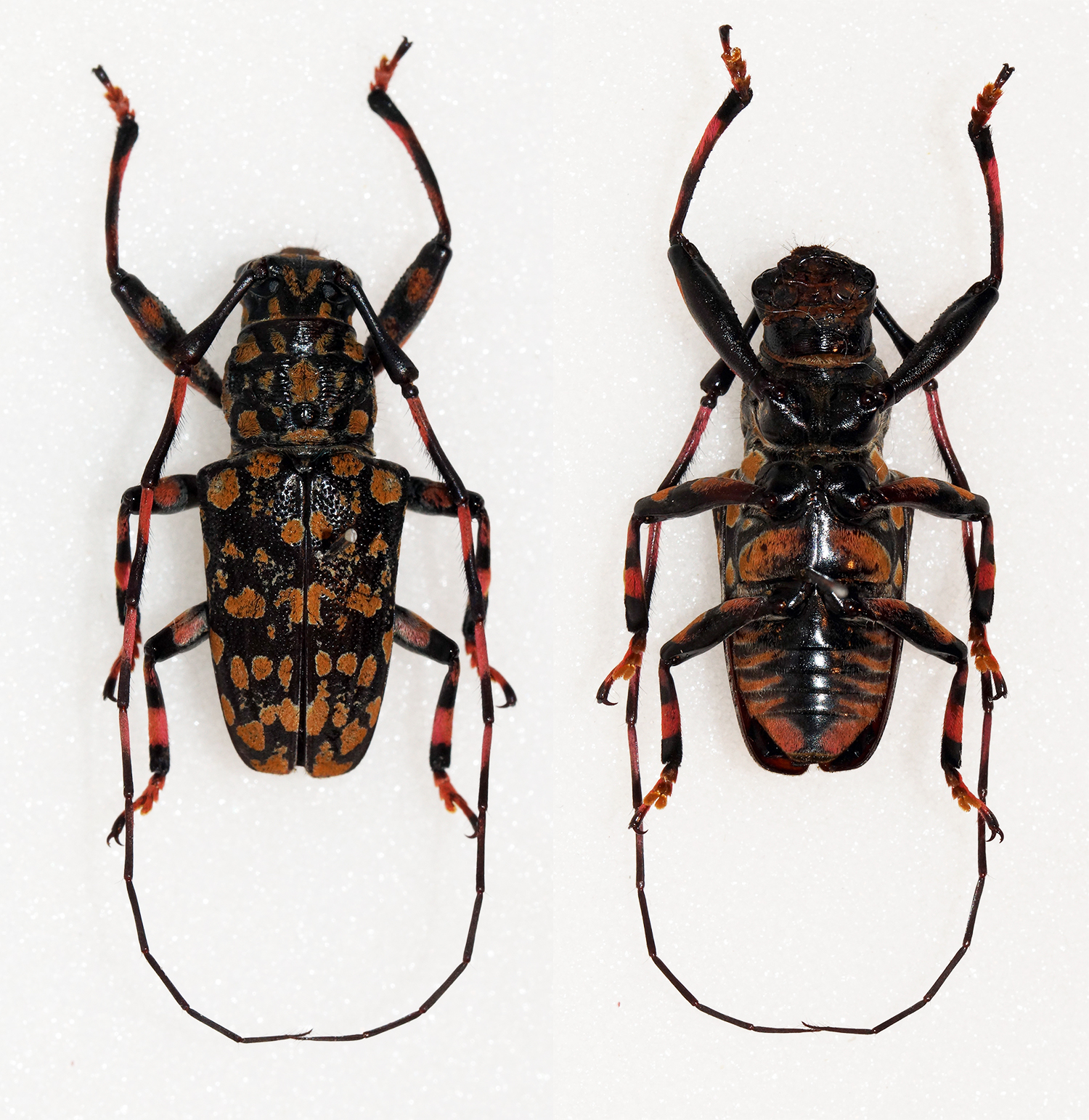 Thomson,1860 Sex: Male Data: 09-2014 - Mt Bawang - West Kalimantan - Borneo Size: 22mm